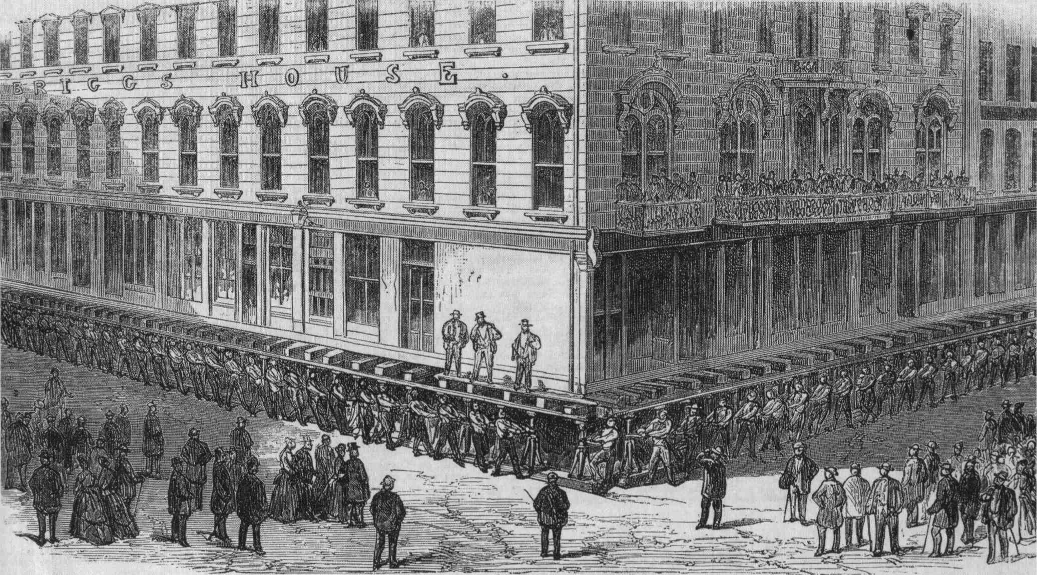 The raising of the briggs house in 1857 ([1]) or 1866 ([2])